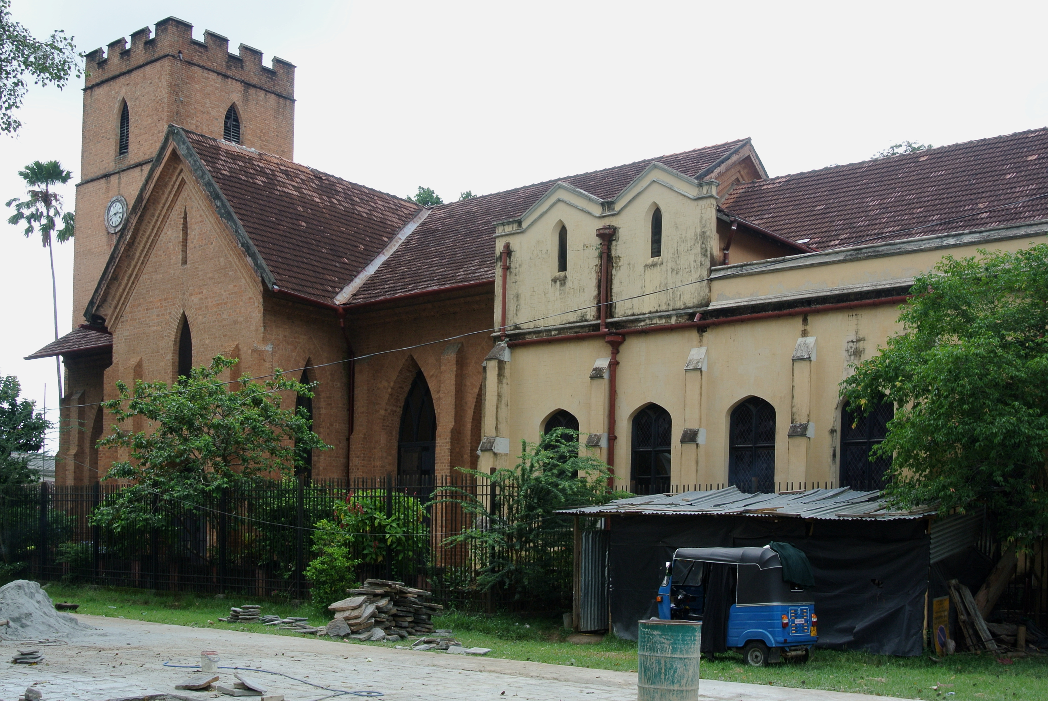 St Paul Church in Kandy, view of the southern side.